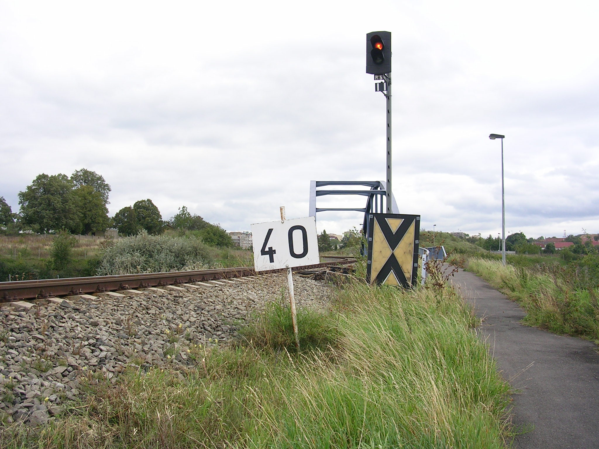 Prague, Zličín.